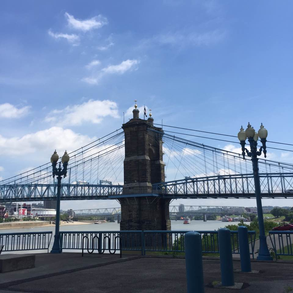 The Roebling Suspension Bridge between Covington and Cincinnati.